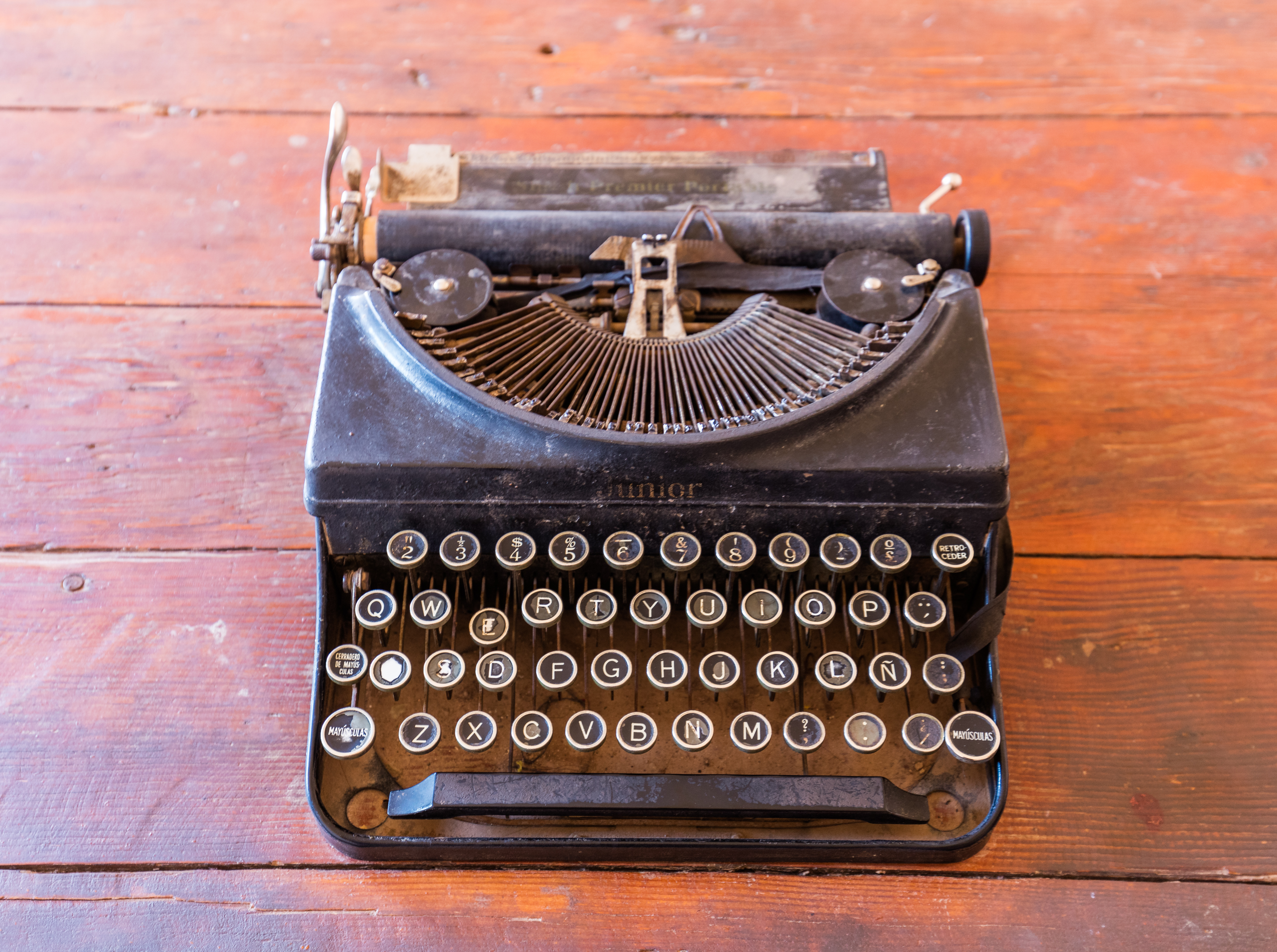 Humberstone and Santa Laura Saltpeter Office, Chile